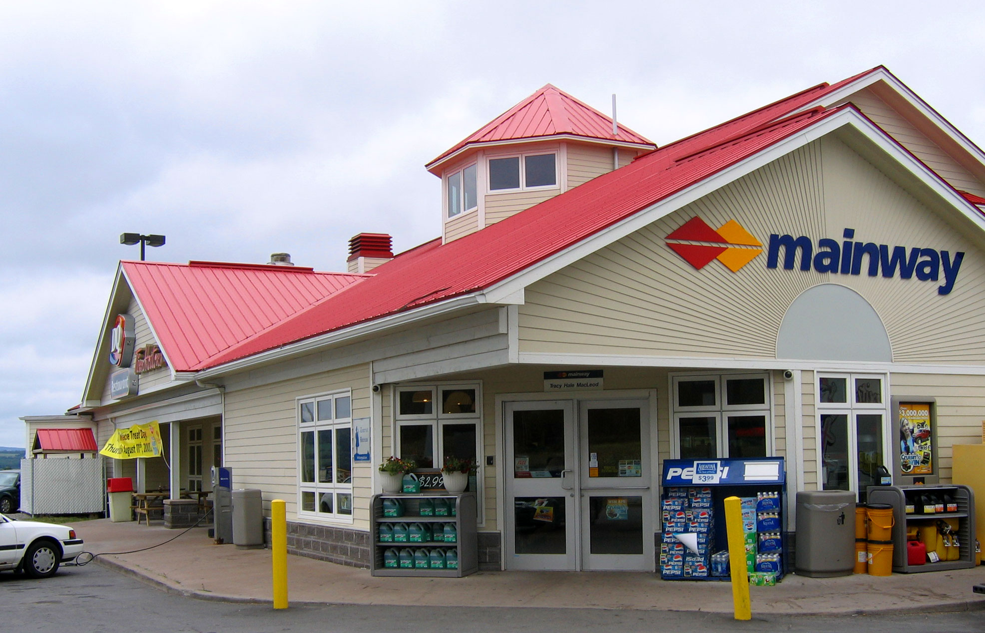 Irving Mainway, northern Nova Scotia, Canada